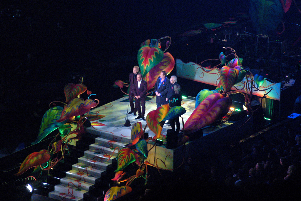 Surviving original Loverboy members Mike Reno, Paul Dean, Matt Frenette, and Doug Johnson are inducted into the Canadian Music Hall of Fame by producer/engineer Bob Rock, 29 Mar 2009 at General Motors Place, Vancouver, B.C.